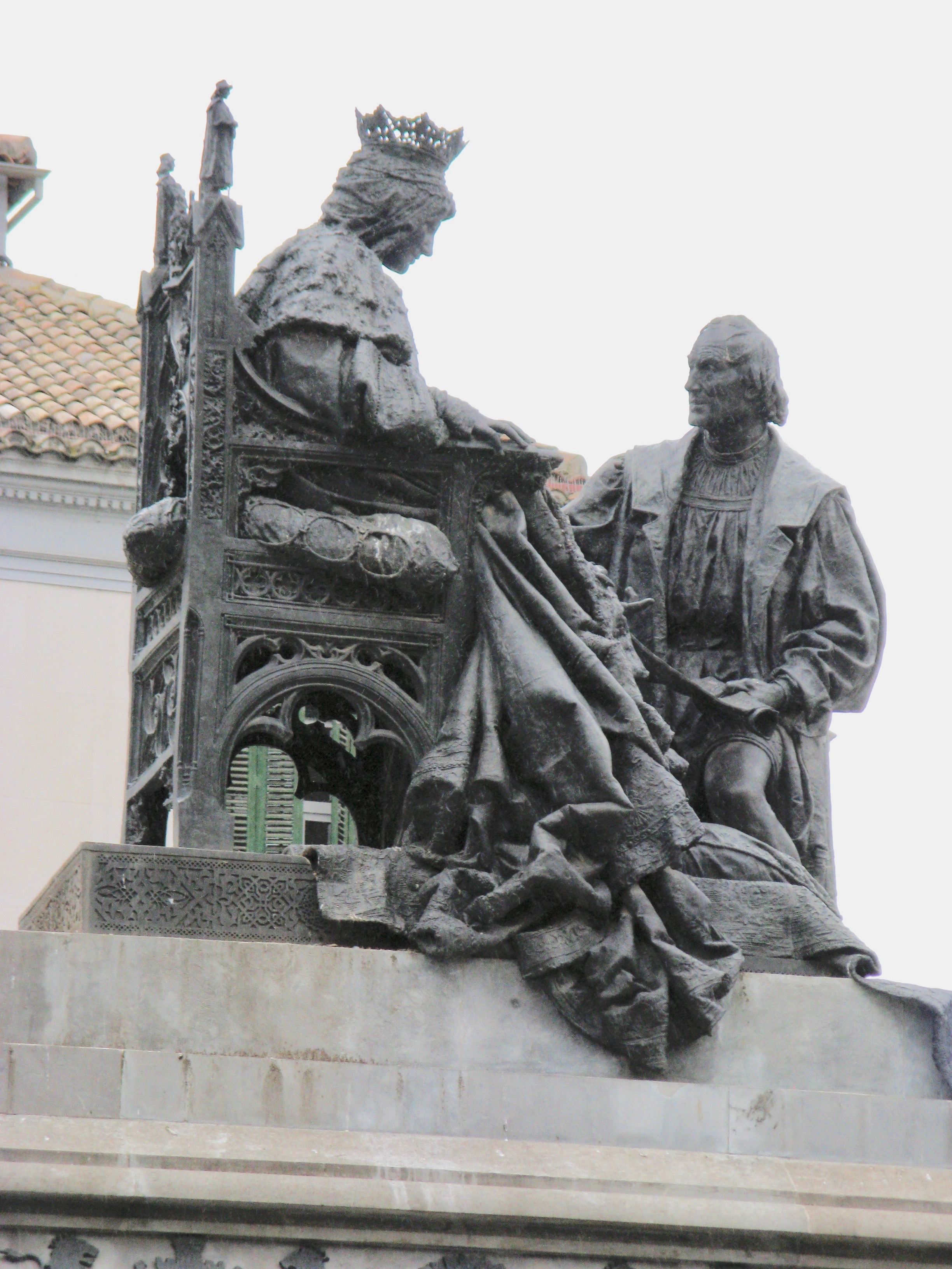 Monument to Christopher Columbus by Mariano Benlliure, 1892 in Granada.